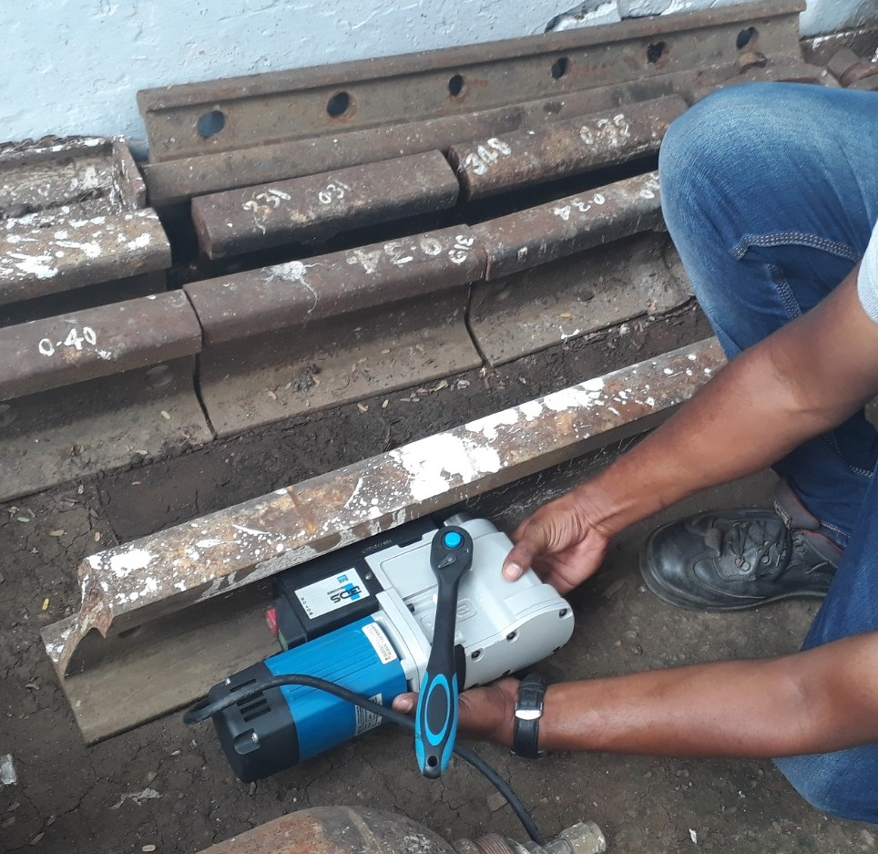 A Compact Low Height Magnetic Drill BDS MAB 155 drilling holes in railway tracks.